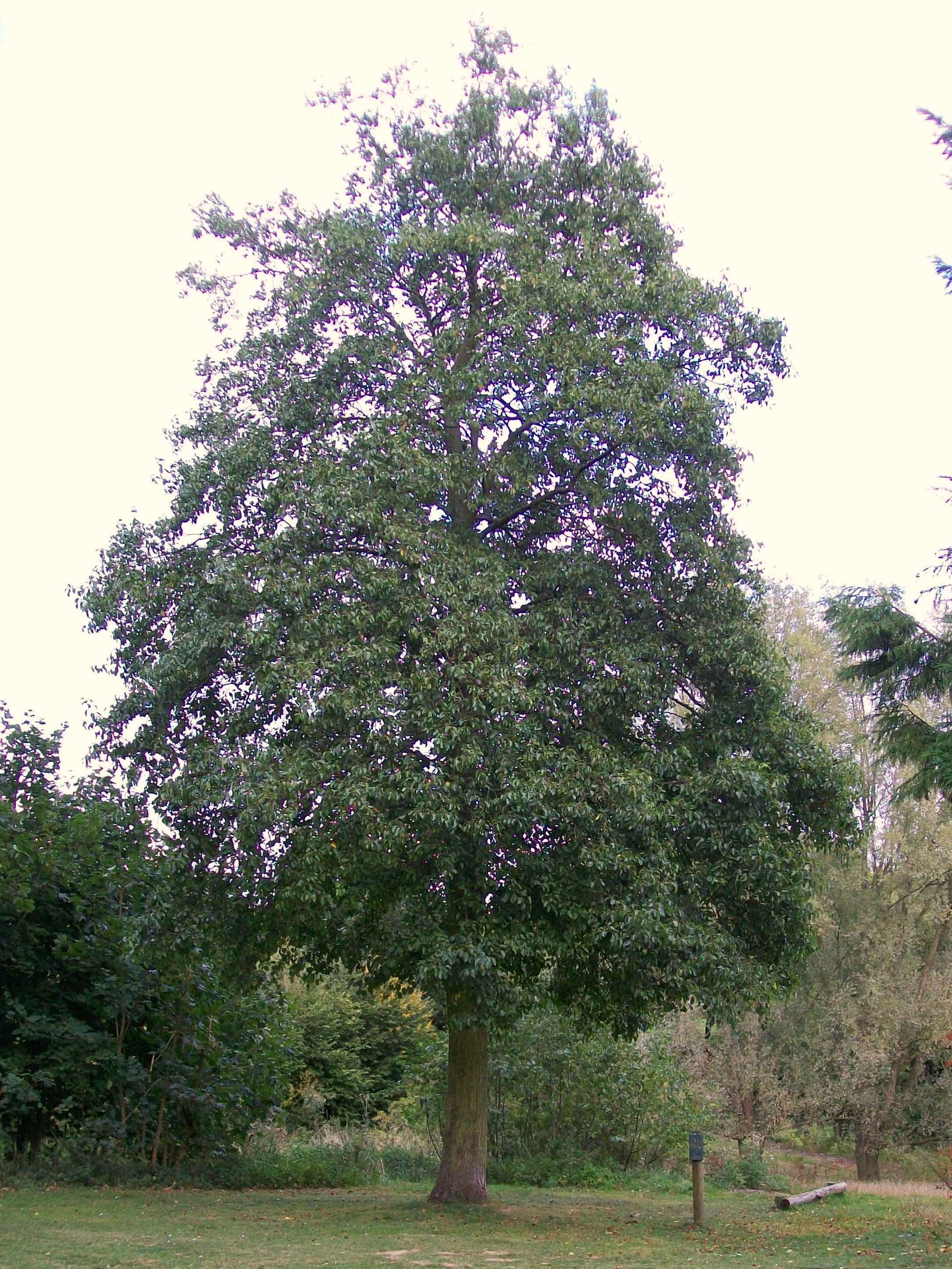 An Italian Alder Alnus cordata cultivated in Stevenage, Hertfordshire, England.